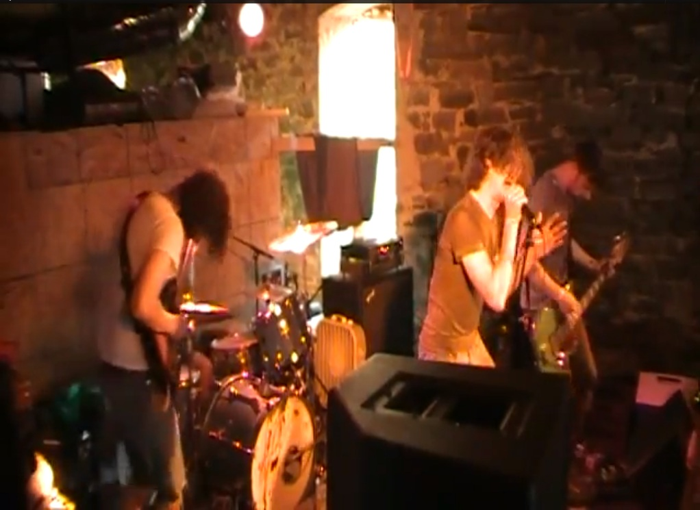 Dope Body at the Scapescape festival in Baltimore, May 2011.